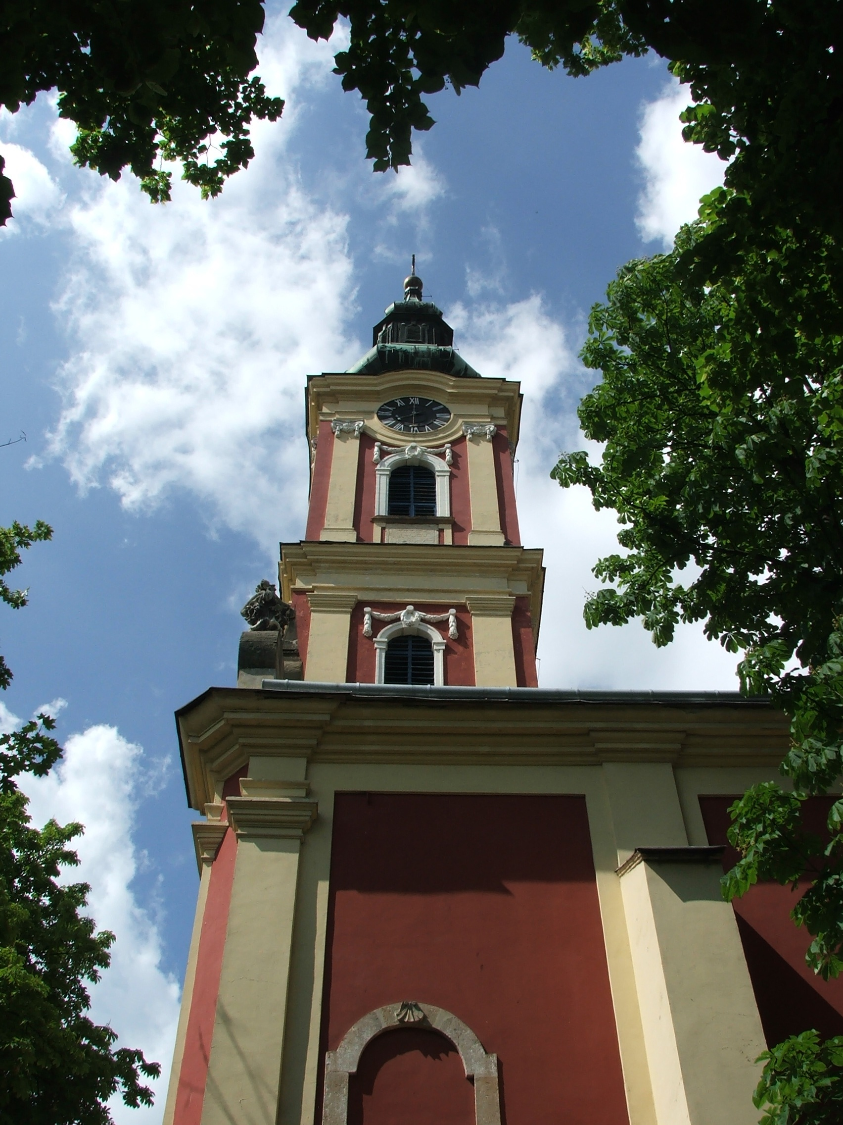 Orthodox Cathedral Beograda in Szentendre